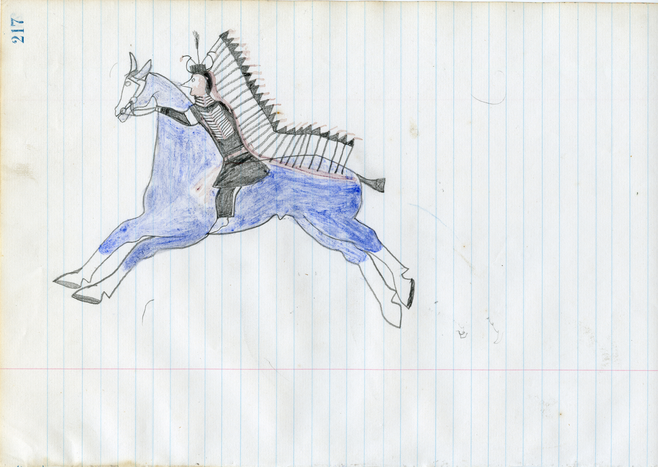 Amidon Ledger page No 217 by Jaw ca. 1885